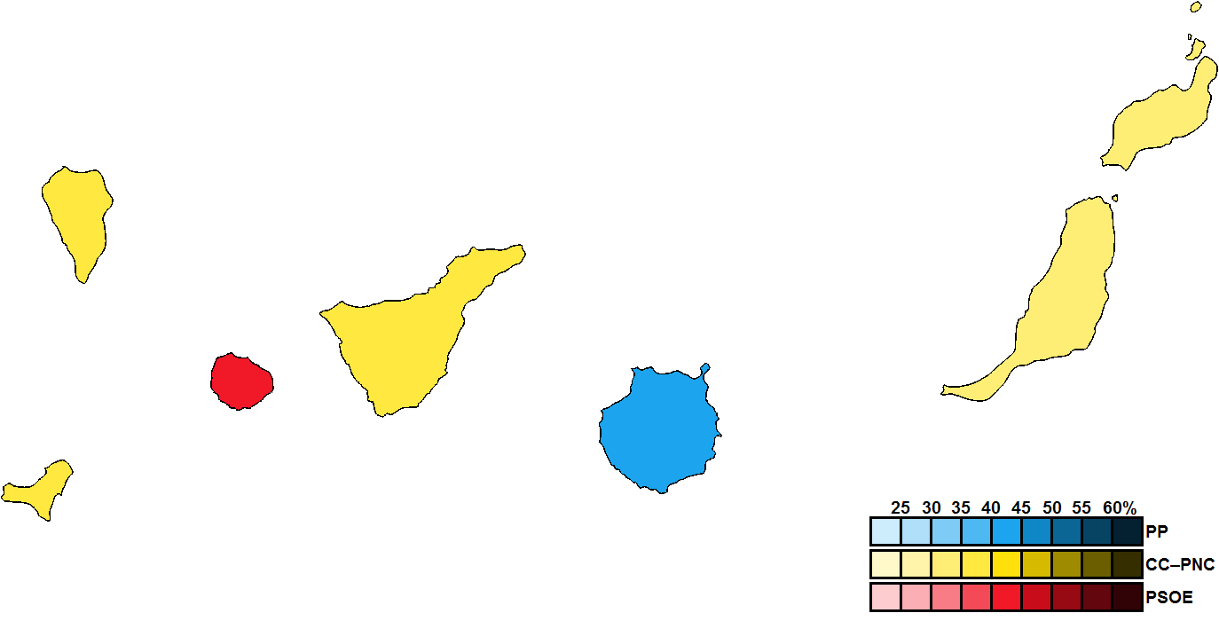 District results for the 2011 Canarian regional election.